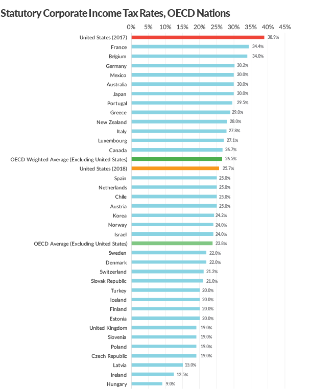 Recreation of the U.S. Tax Foundation (2018) table on OECD Corporate tax rates (pre and post U.S TCJA)